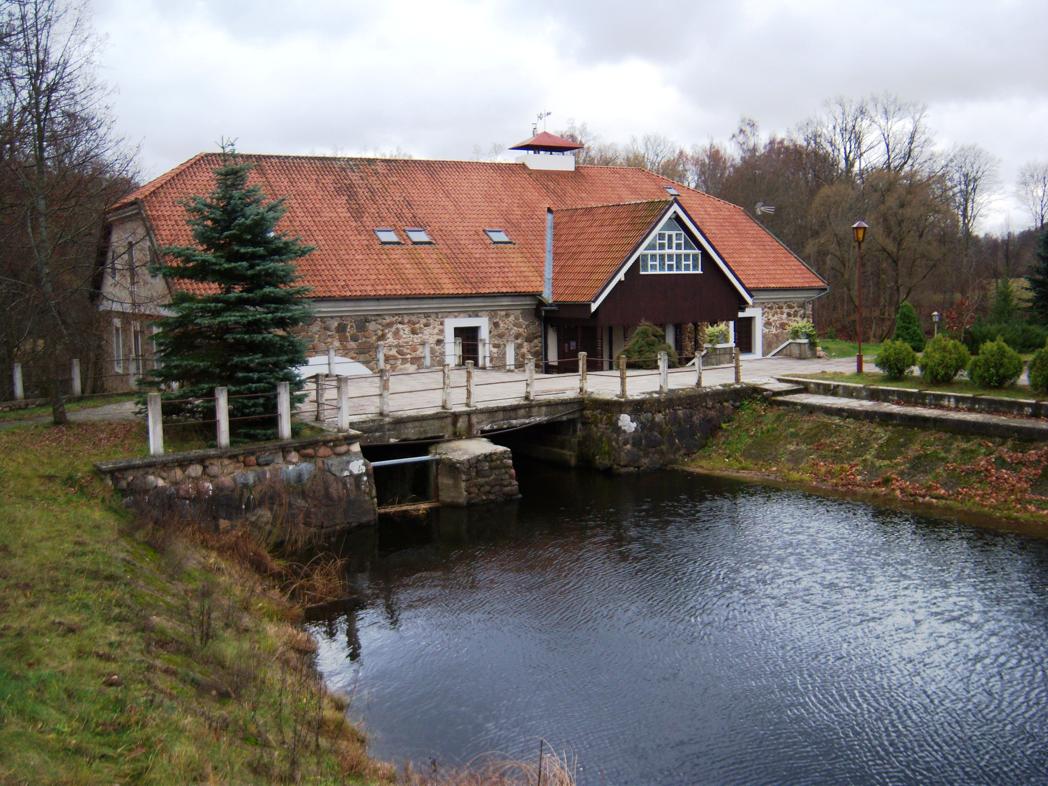 Former watermill in Vilkėnas, Šilutė District, Lithuania